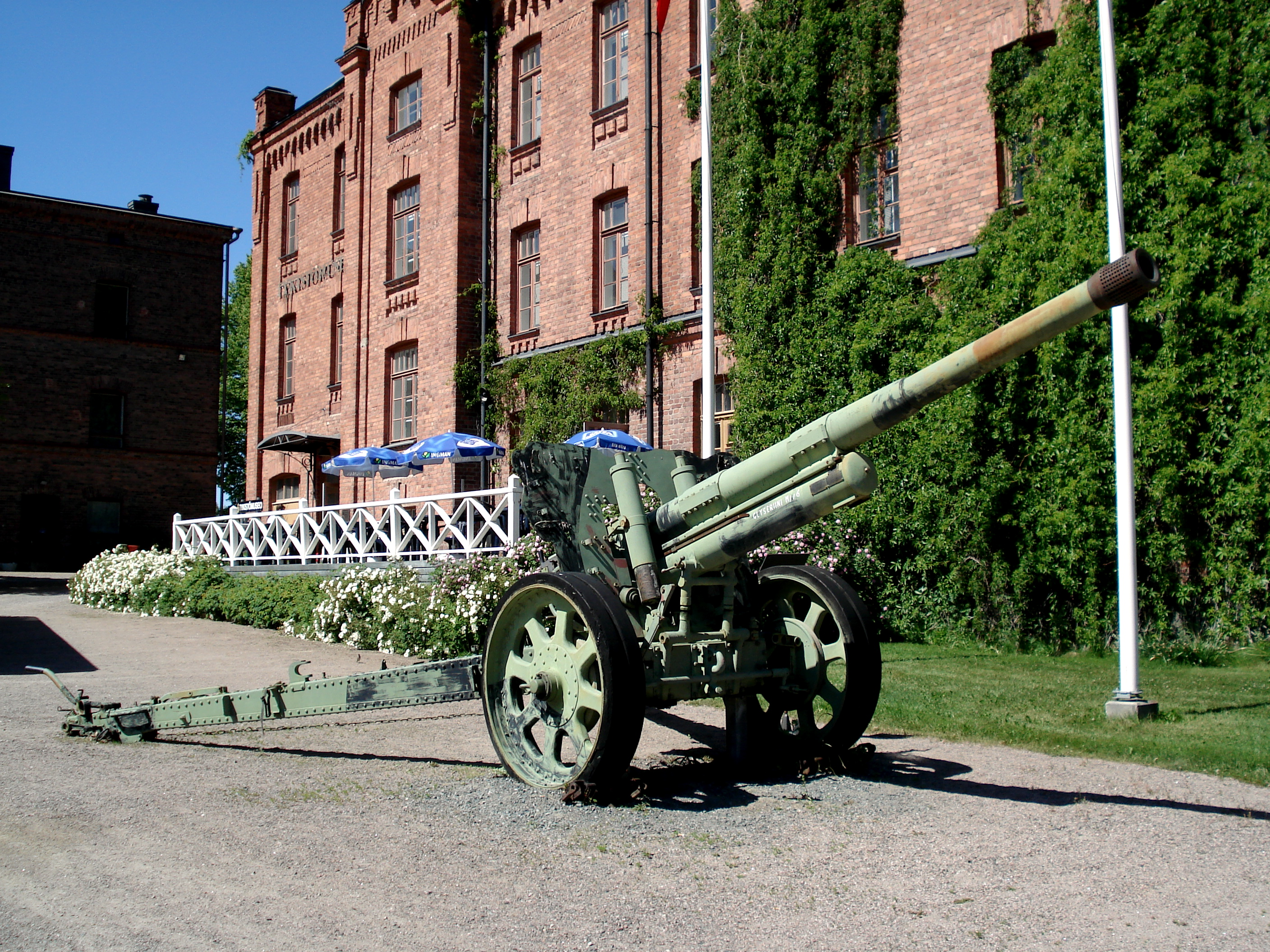 105 mm M34 cannon manufactured by Swedish Bofors. This particular example is one of the 12 purchased and used by Finland. Displayed in Hämeenlinna Artillery Museum. Photo taken on June 18, 2006. Source: Photo by me, User:Balcer.